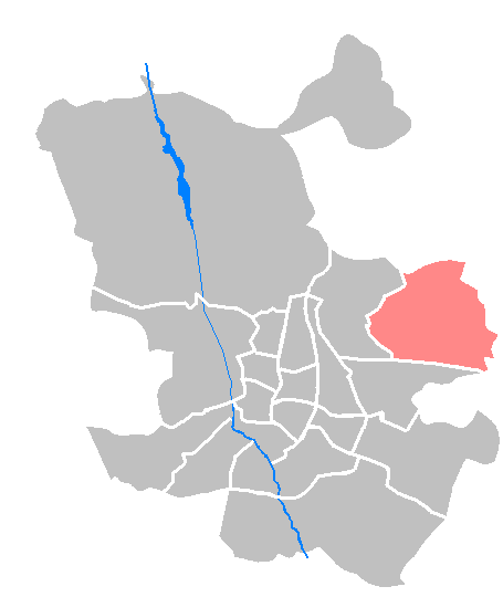 Locator maps of districts in Madrid: Maps - ES - Madrid - Barajas.PNG